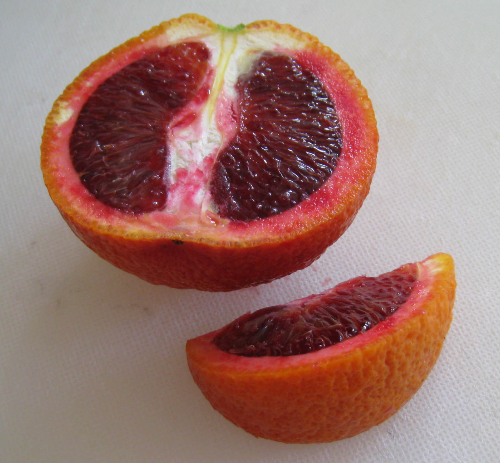 A blood orange, sliced to show the flesh